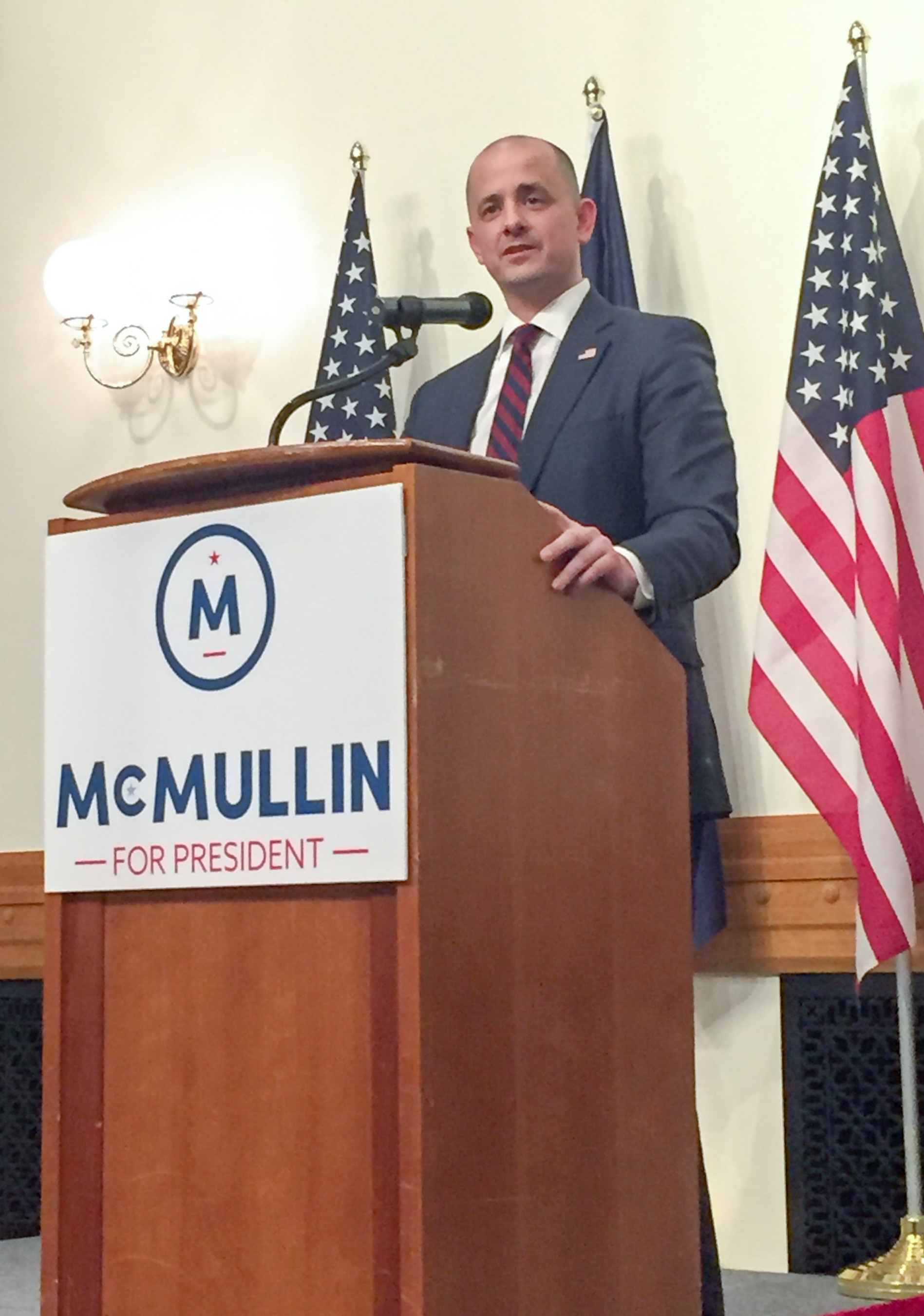 Evan McMullin at Provo rally on October 5, 2016.